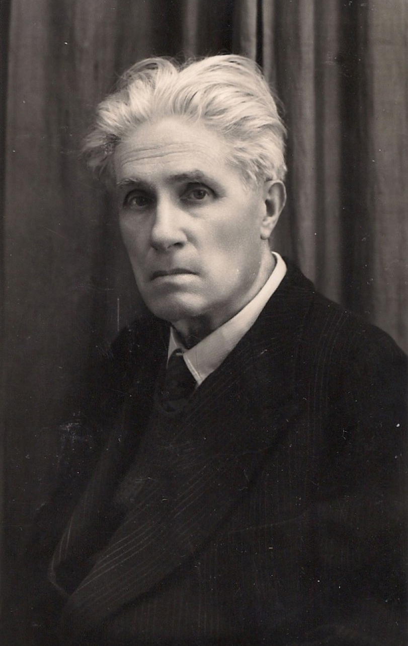 Photo portrait of Italian voice teacher, Arturo Melocchi